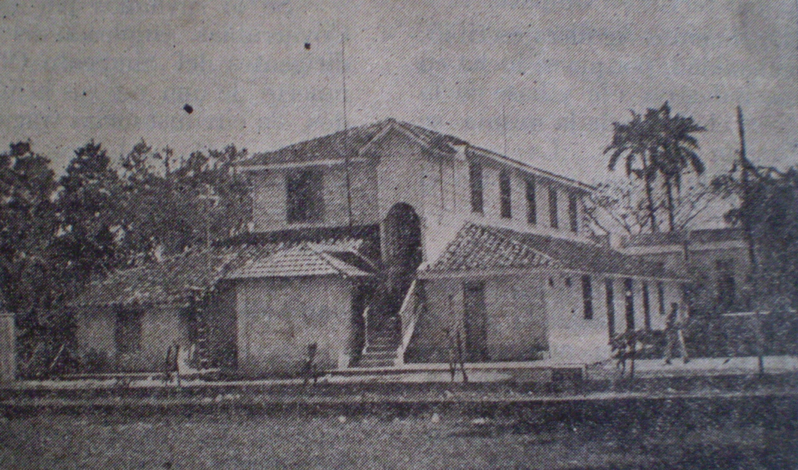 The photo is the Club Mercetida in Melena del Sur City